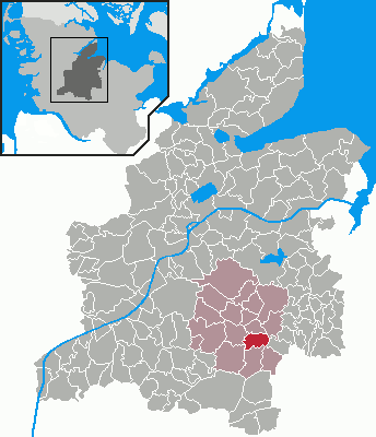 Locator maps of municipalities in Schleswig-Holstein - District Rendsburg-Eckernförde